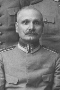 Photograph of the Finnish conductor Alexei Apostol (1866–1927).